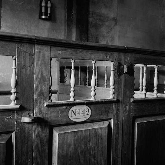 Photograph of detail of pew end, pew number 42, Old Ship Church, Hingham, Massachusetts.